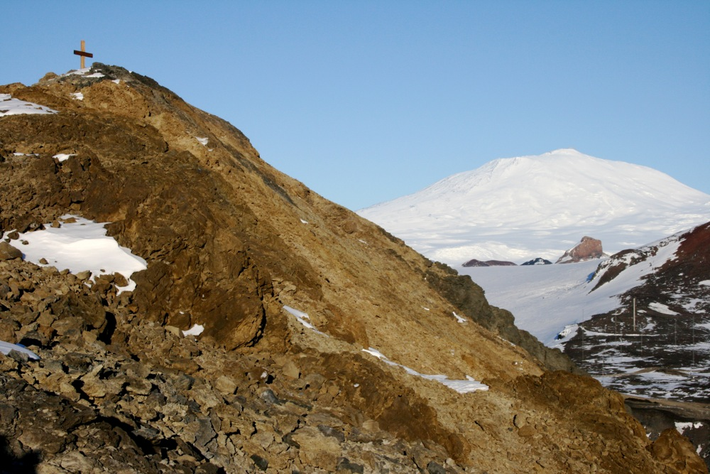 Mount Erebus, Ross Island, Antarctica